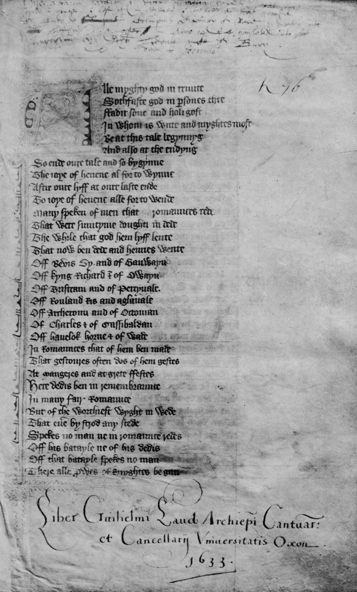 Facsimile first page of original Laud Troy Book manuscript (Bodleian MS Laud Misc. 595)